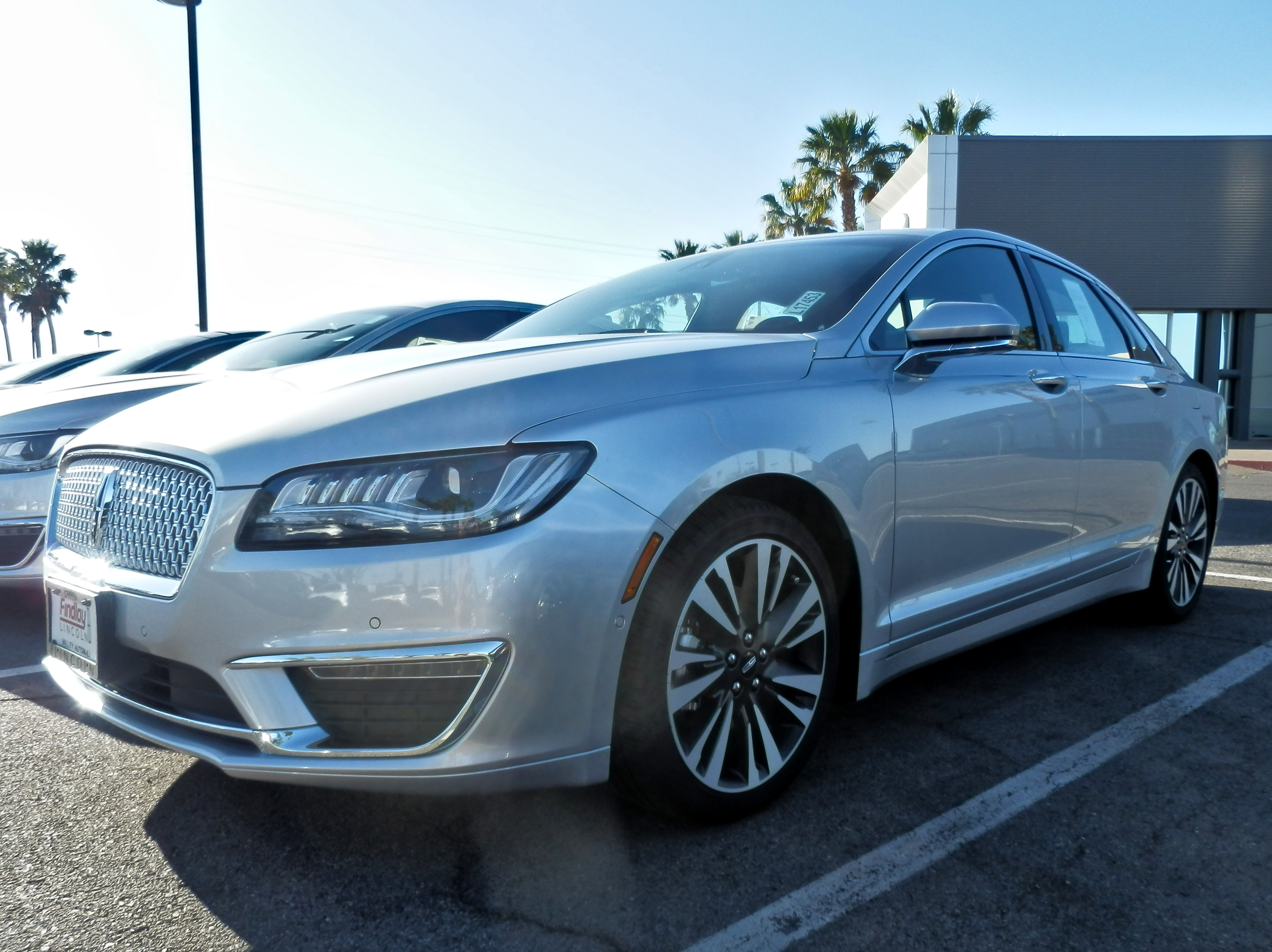 Lincoln MKZ in Las Vegas